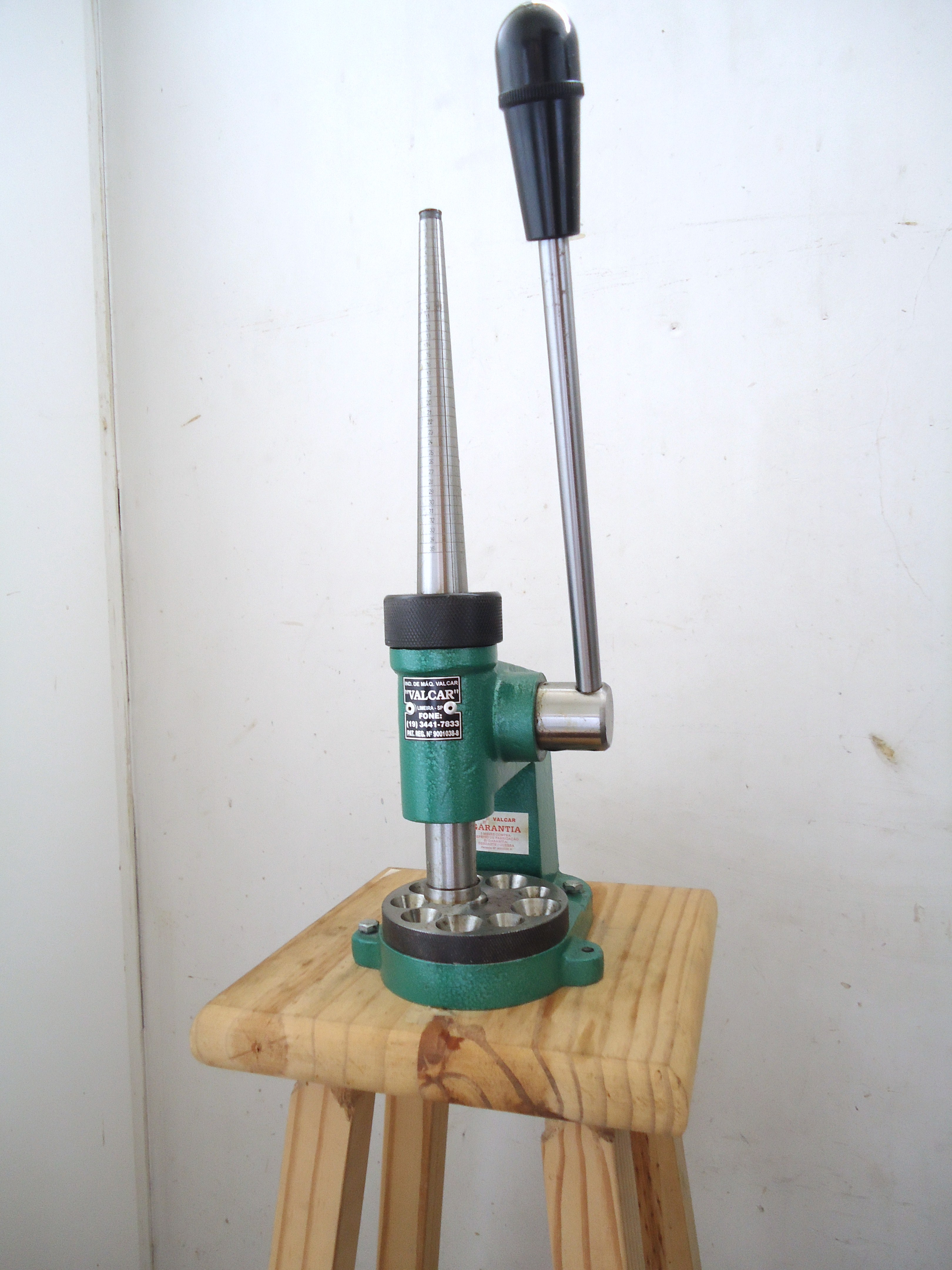 Ring enlarger and reducer. Photo : Mauro Cateb, Brazilian jeweler.